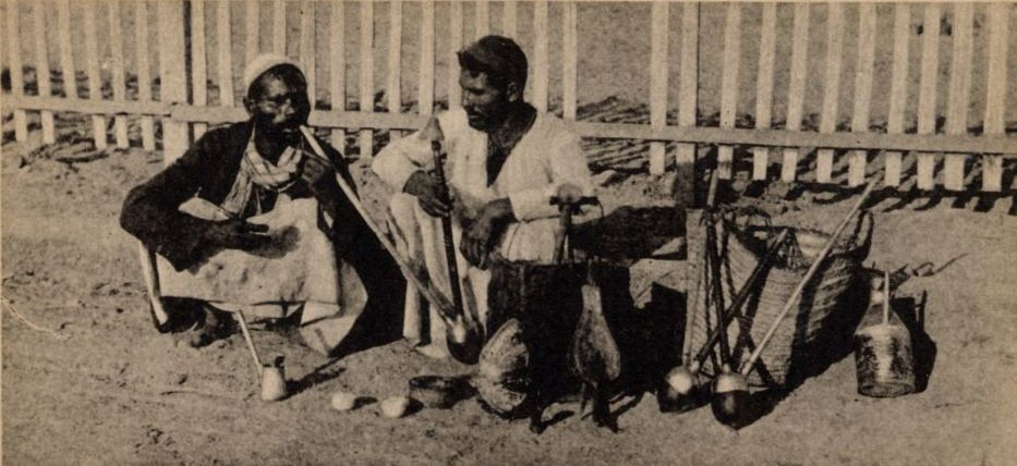 Two men smoking long pipes in front of a white fence